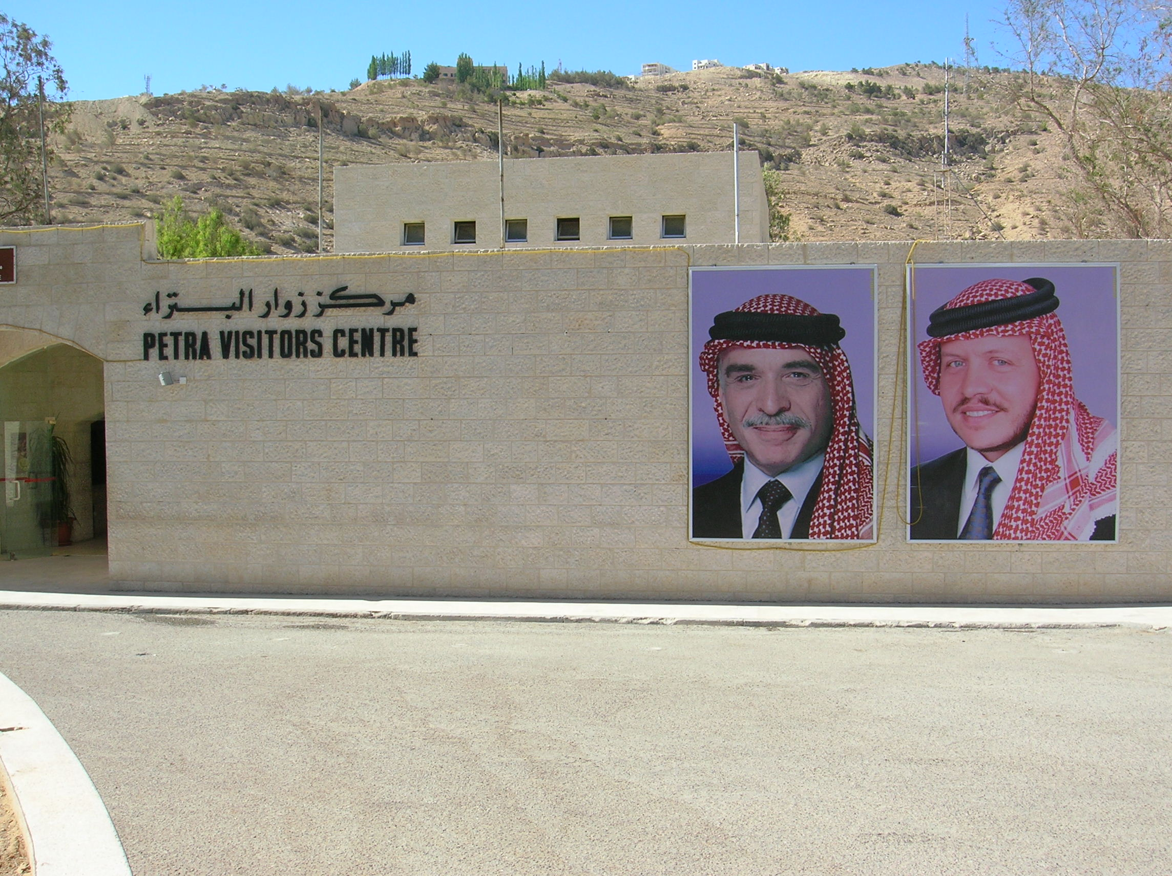 Photograph of the Petra Visitors Center in Jordan. Pictured are King Abdullah II (right) and his father King Hussein (left).